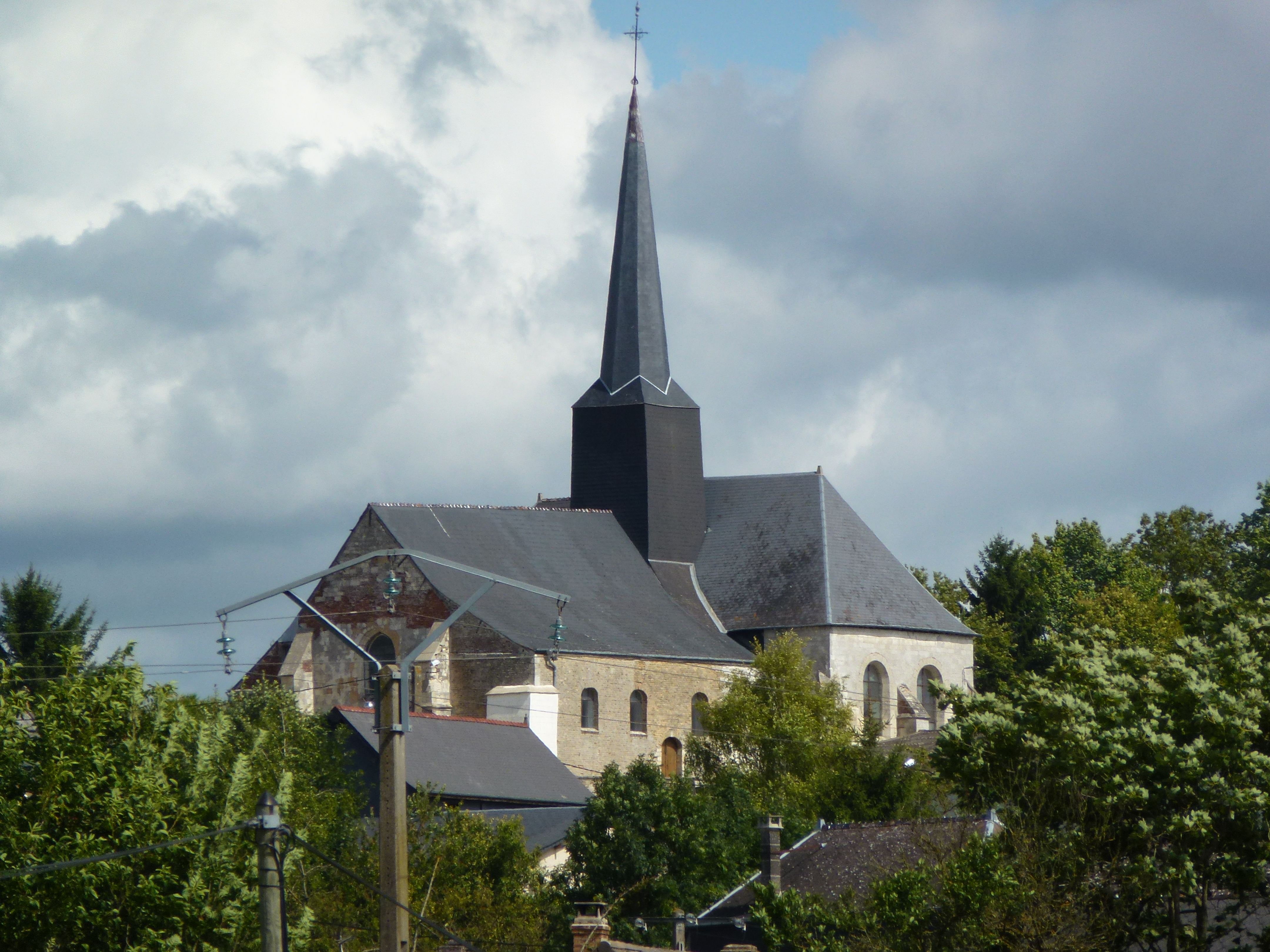 Inaumont (Ardennes) église